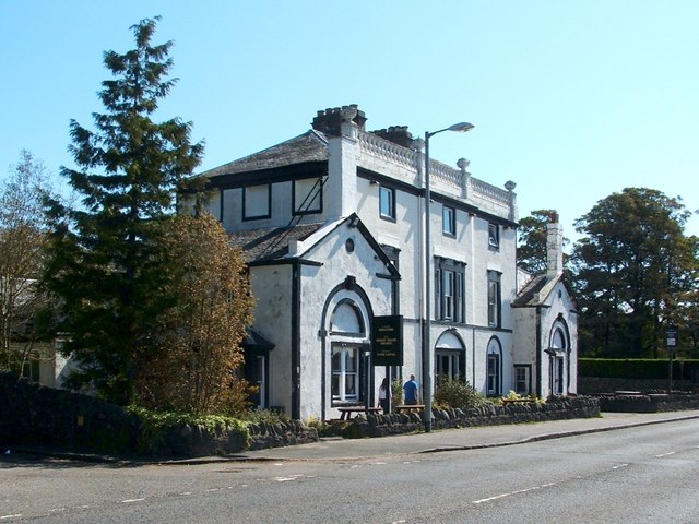 The Ardencaple Hotel